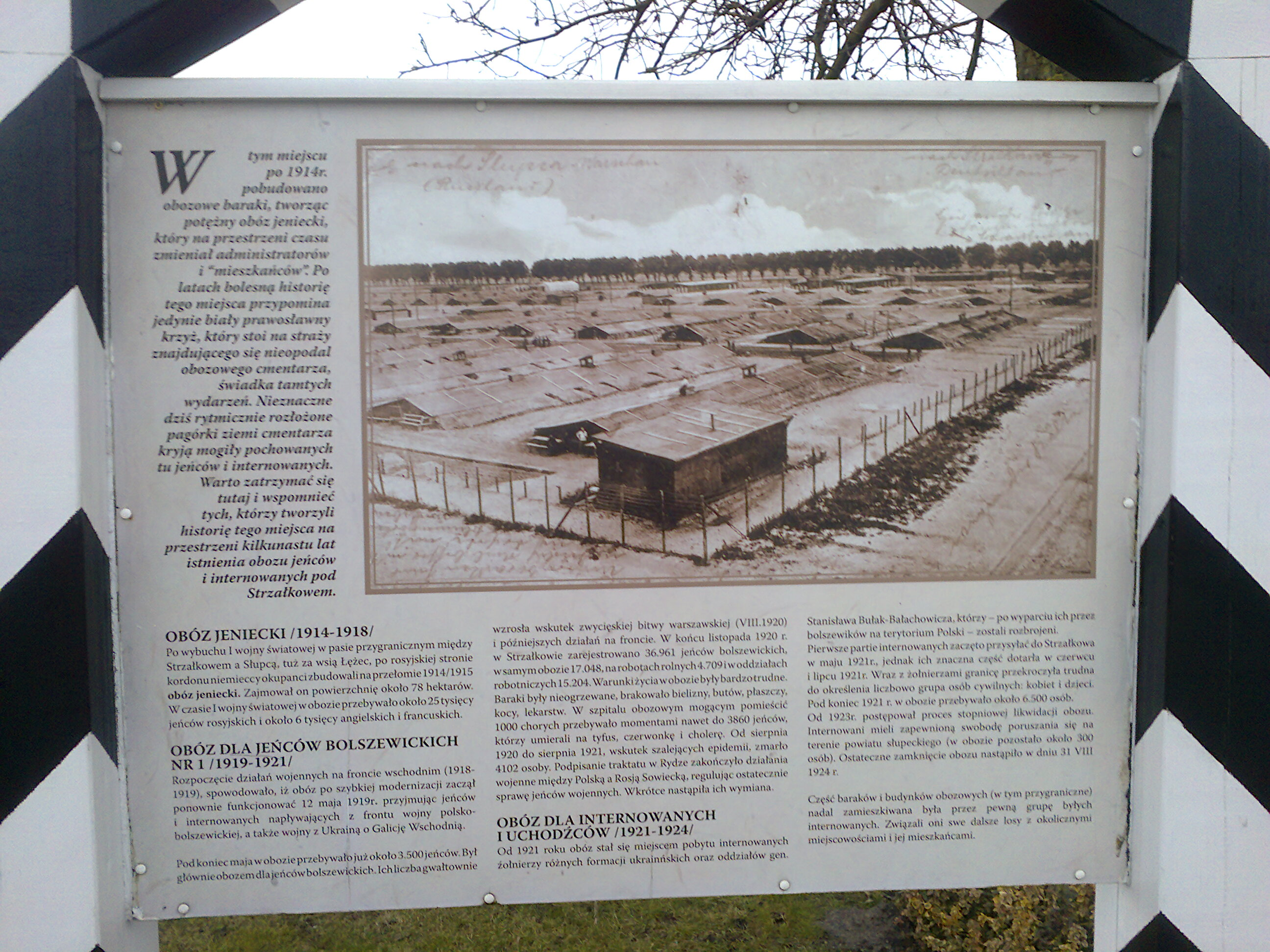 Former POW camp in Strzałkowo (Poland)